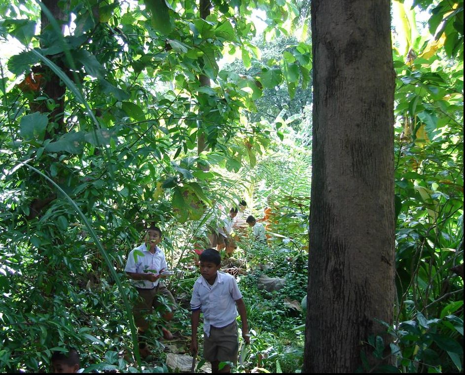 Wat Khung Taphao, Ban Khung Taphao, Khung Taphao subdistrict, Mueang Uttaradit, Uttaradit Province, Thailand.) on December 2, 2008.